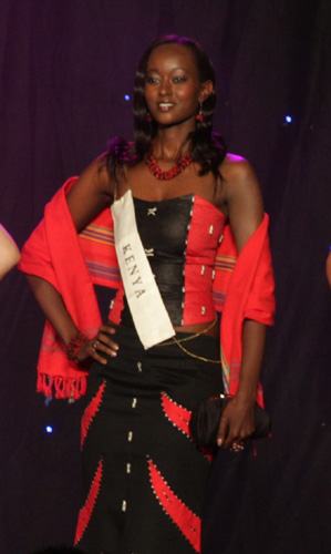 Miss Kenya Ruth Kinuthia during Miss World 08